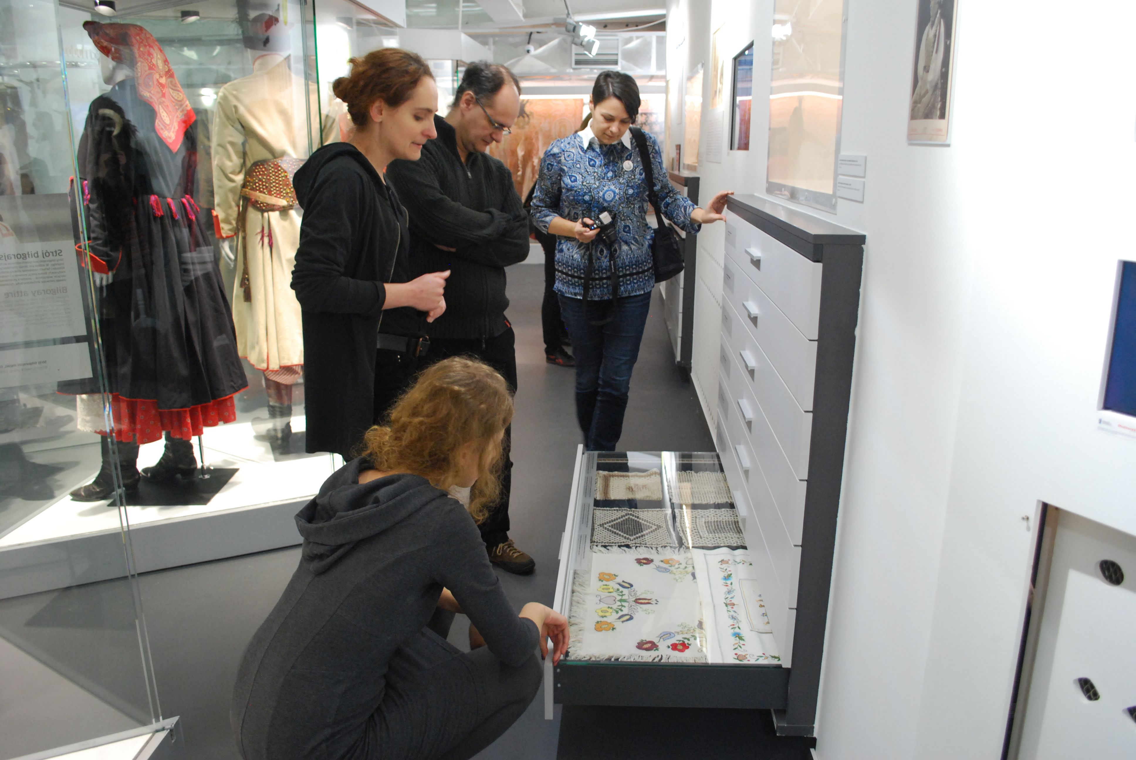 Wiki and ethnographic training workshop at National Ethnographic Museum, Warsaw